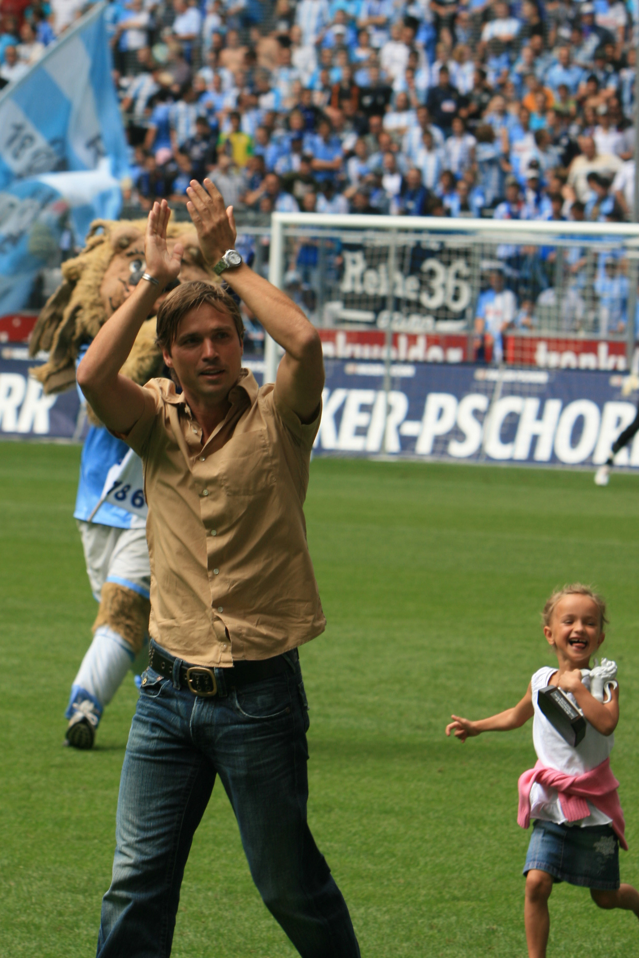 Good-bye for Harald Cerny before game 1860 Munich - 1 FC Kaiserslautern, Allianz Arena